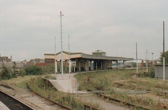 Cardiff Riverside railway station. Taken in 1993 shortly before demolition.